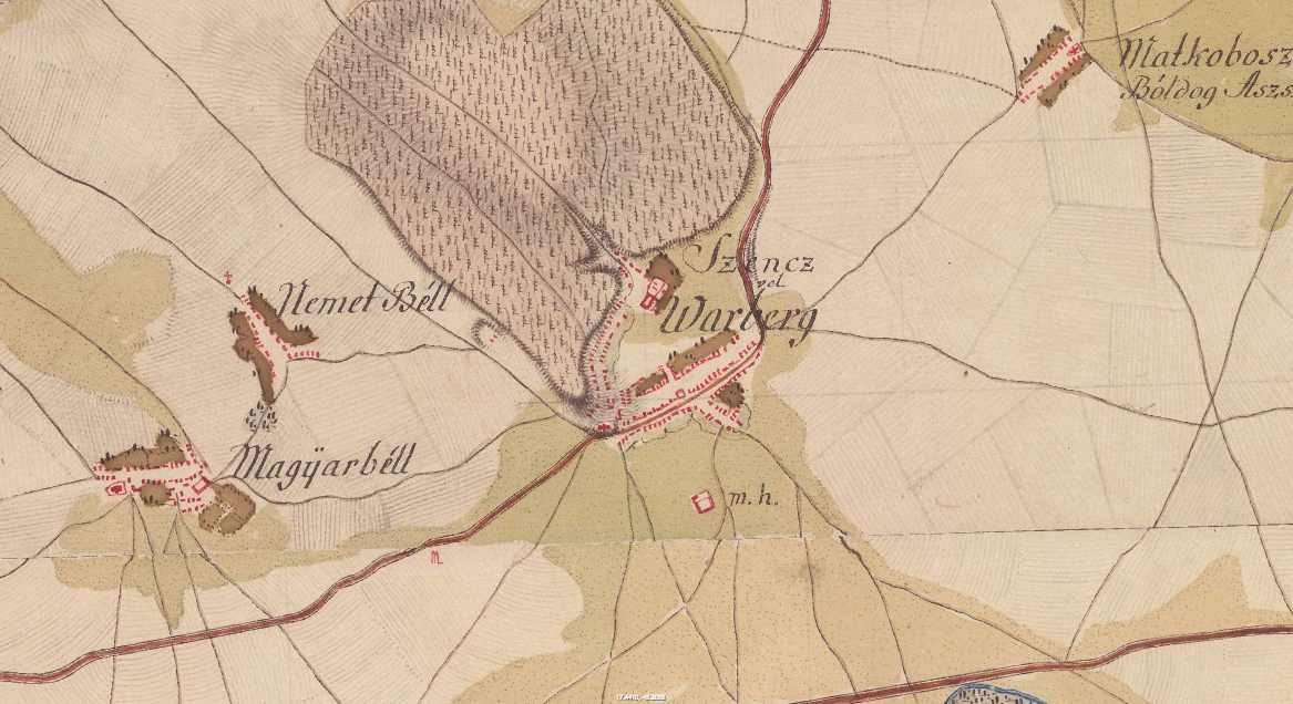 City Senec on the first military survey